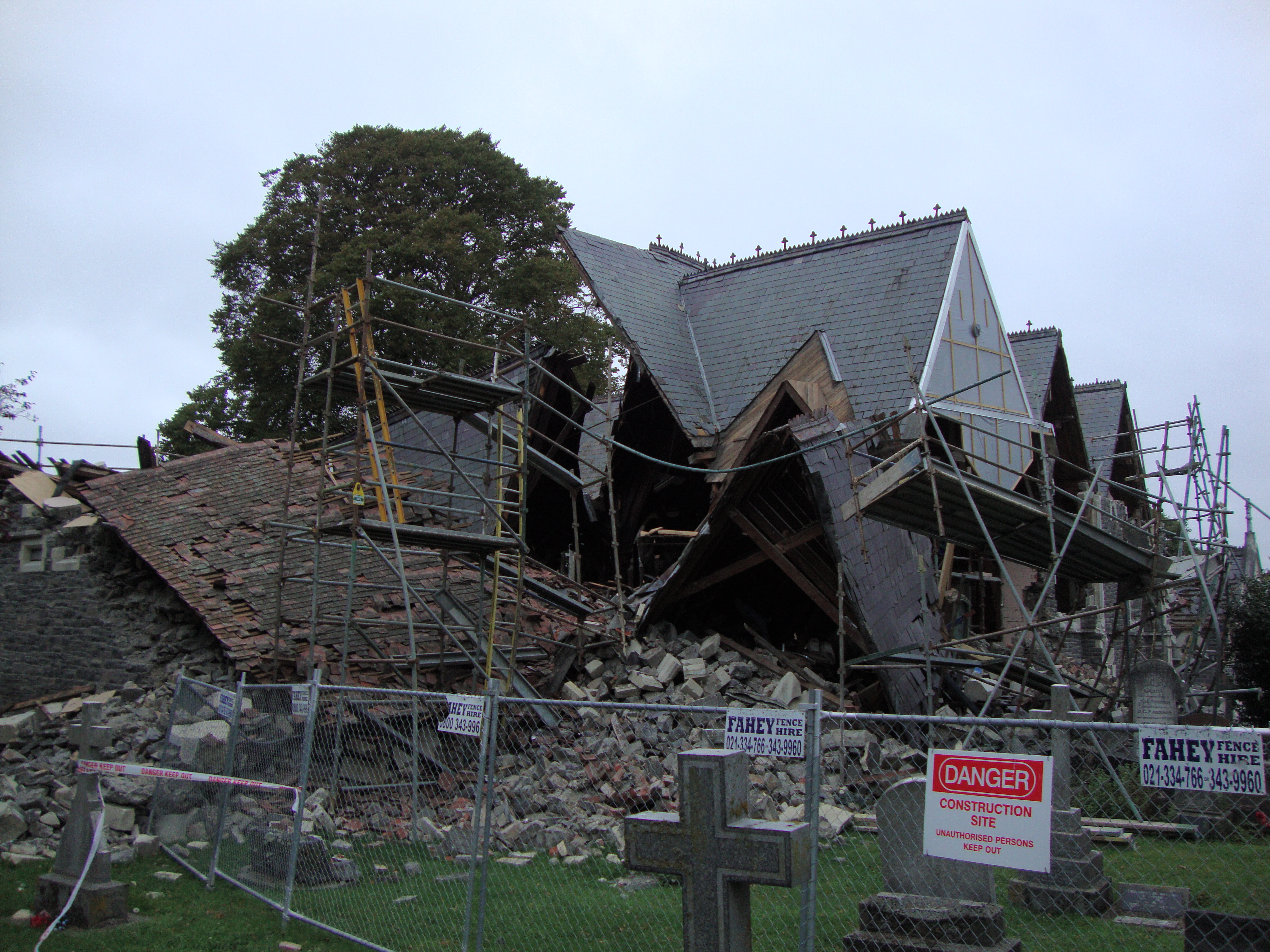 The Holy Trinity Church in Avonside, Christchurch, after the 2011 Christchurch earthquake.